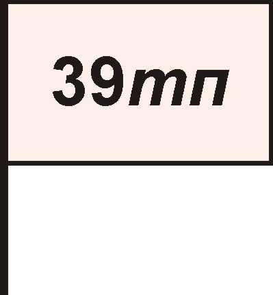 Іконка - прапор 39-го танкового полку 23-ї гвардійської танкової дивізії 8-ї танкової армії ЗС СРСР